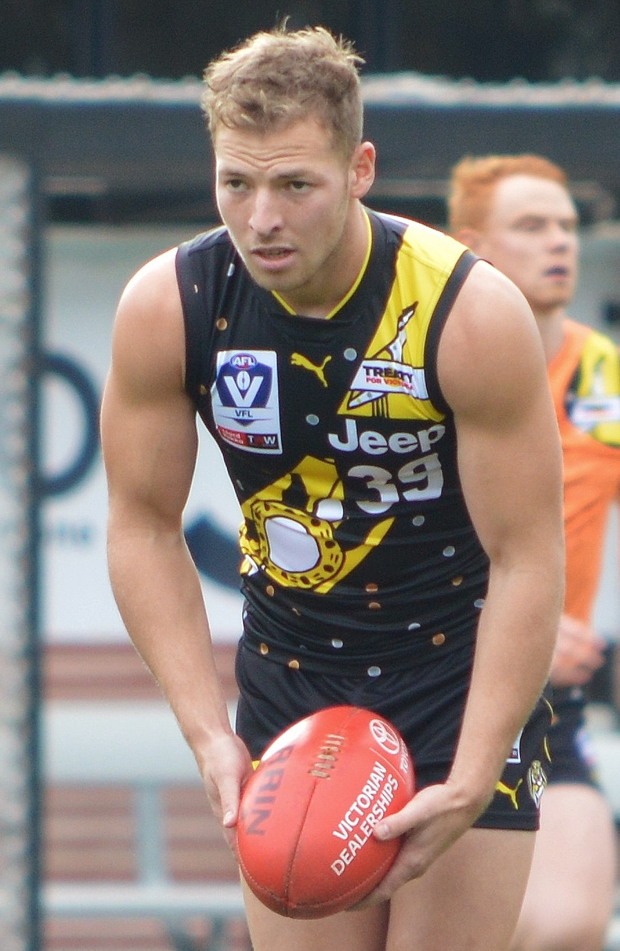 Jake Aarts with Richmond in the round 8 VFL match against Essendon at Punt Road Oval on 25 May 2019.